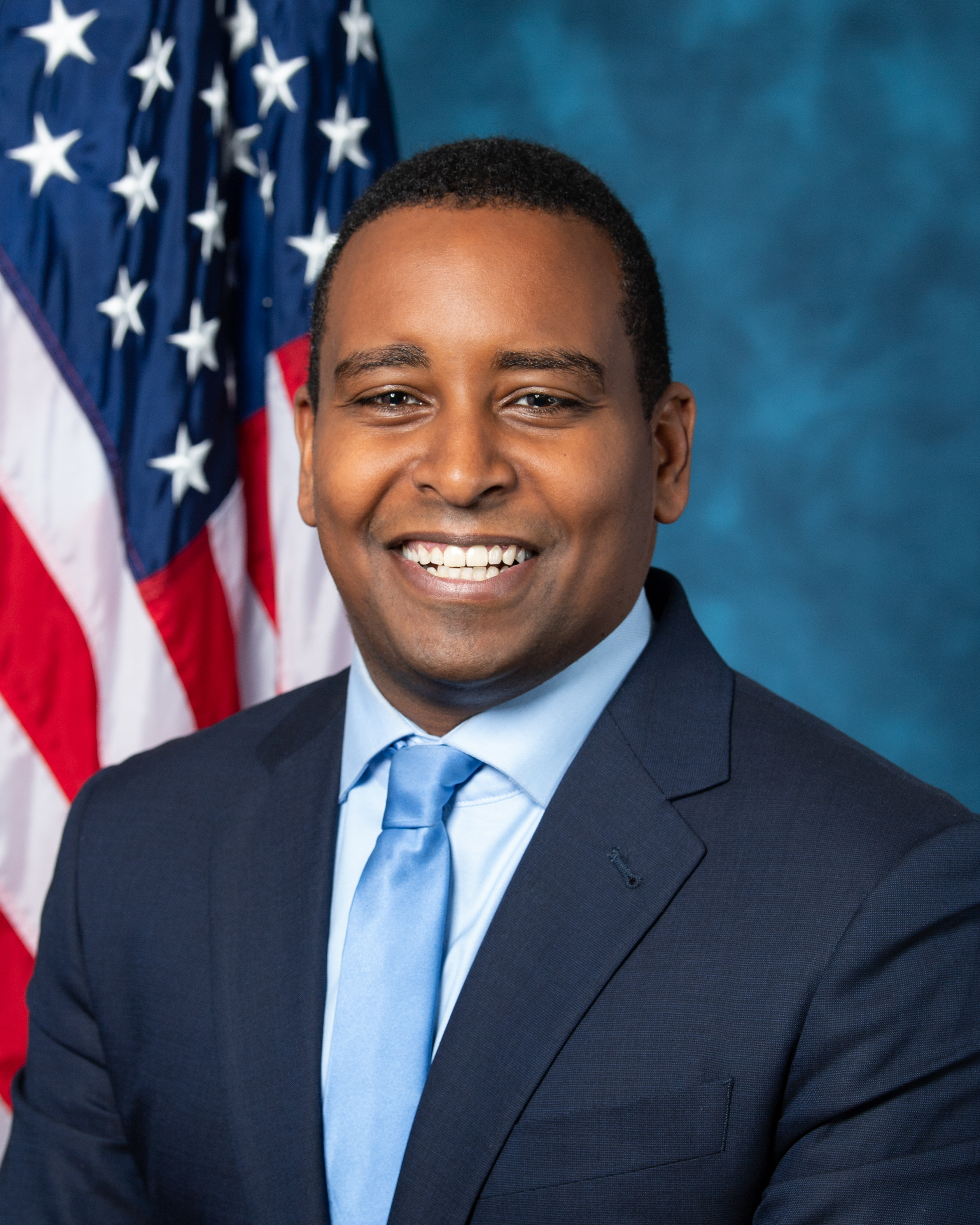 Rep. Joe Neguse (D-CO02)